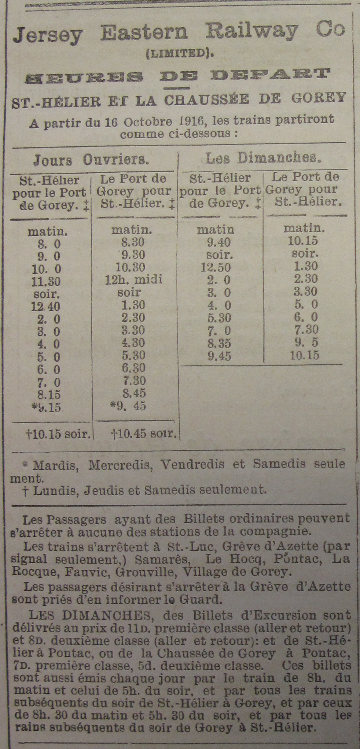 1916 railway timetable of the Jersey Eastern Railway, in newspaper La Nouvelle Chronique de Jersey, 1916, Jersey This image (or other media file) is in the public domain because its copyright has expired. This applies to Australia, the European Union and those countries with a copyright term of life of the author plus 70 years. You must also include a United States public domain tag to indicate why this work is in the public domain in the United States. Note that a few countries have copyright terms longer than 70 years: Mexico has 100 years, Colombia has 80 years, and Guatemala and Samoa have 75 years, Russia has 74 years for some authors. This image may not be in the public domain in these countries, which moreover do not implement the rule of the shorter term. Côte d'Ivoire has a general copyright term of 99 years and Honduras has 75 years, but they do implement the rule of the shorter term. This file has been identified as being free of known restrictions under copyright law, including all related and neighboring rights.